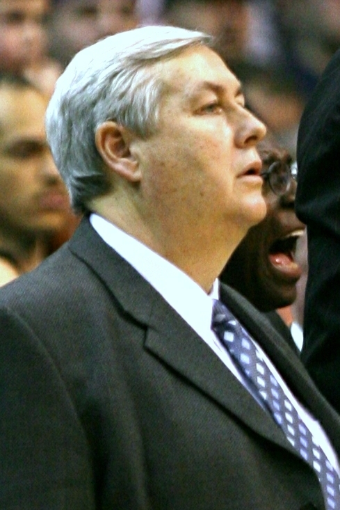 New York Knicks assistant coach Brendan Suhr in 2007.